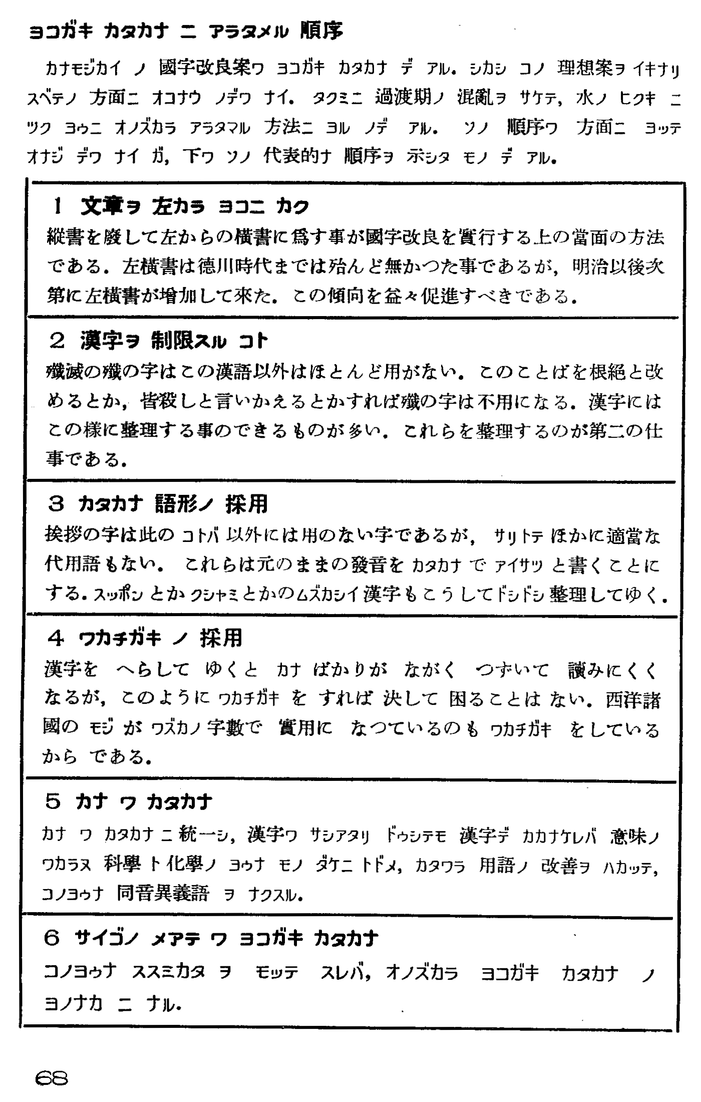 Steps toward horizontal katakana writing. It describes the line of the Kanamojikai [Kana Character Association] in 1930s. Their first two steps, namely, left-to-right horizontal writing and kanji restriction, were accepted by Japanese government later, and they are very common today. This image was scanned at 300 dpi.